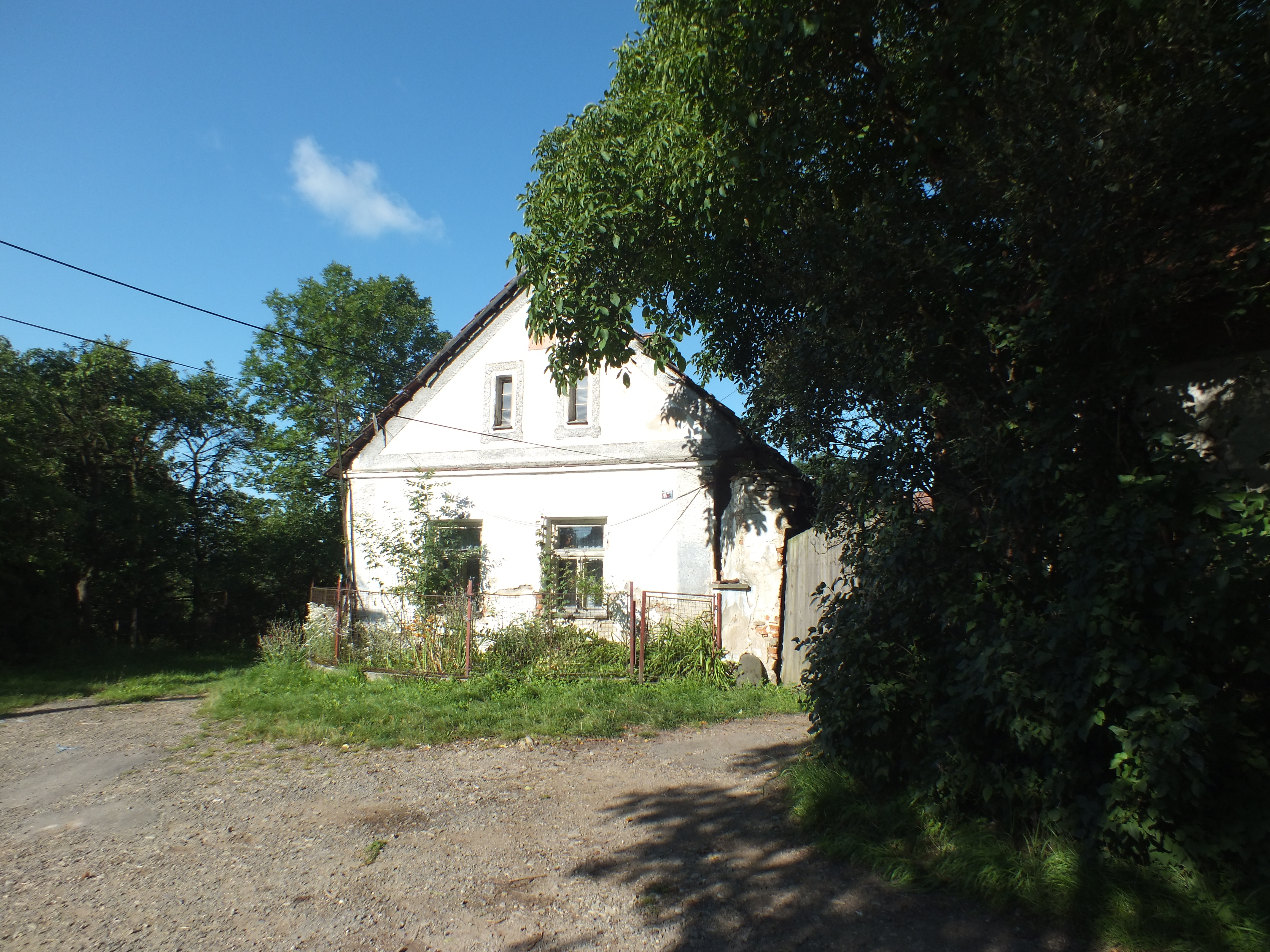 The house No. 2 in Nehonín